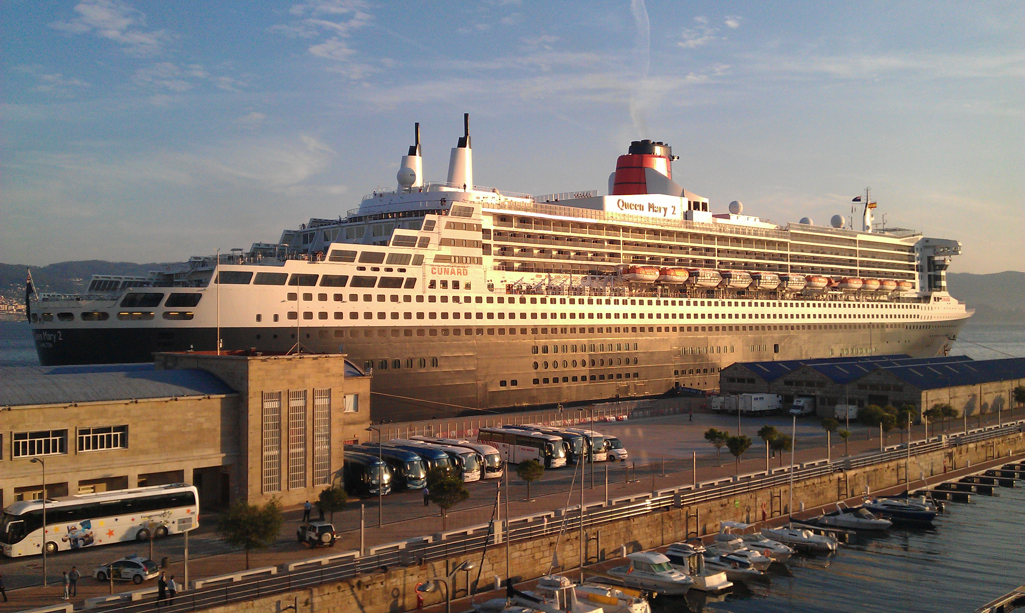 The RMS Queen Mary 2 in the port of Vigo ,Spain